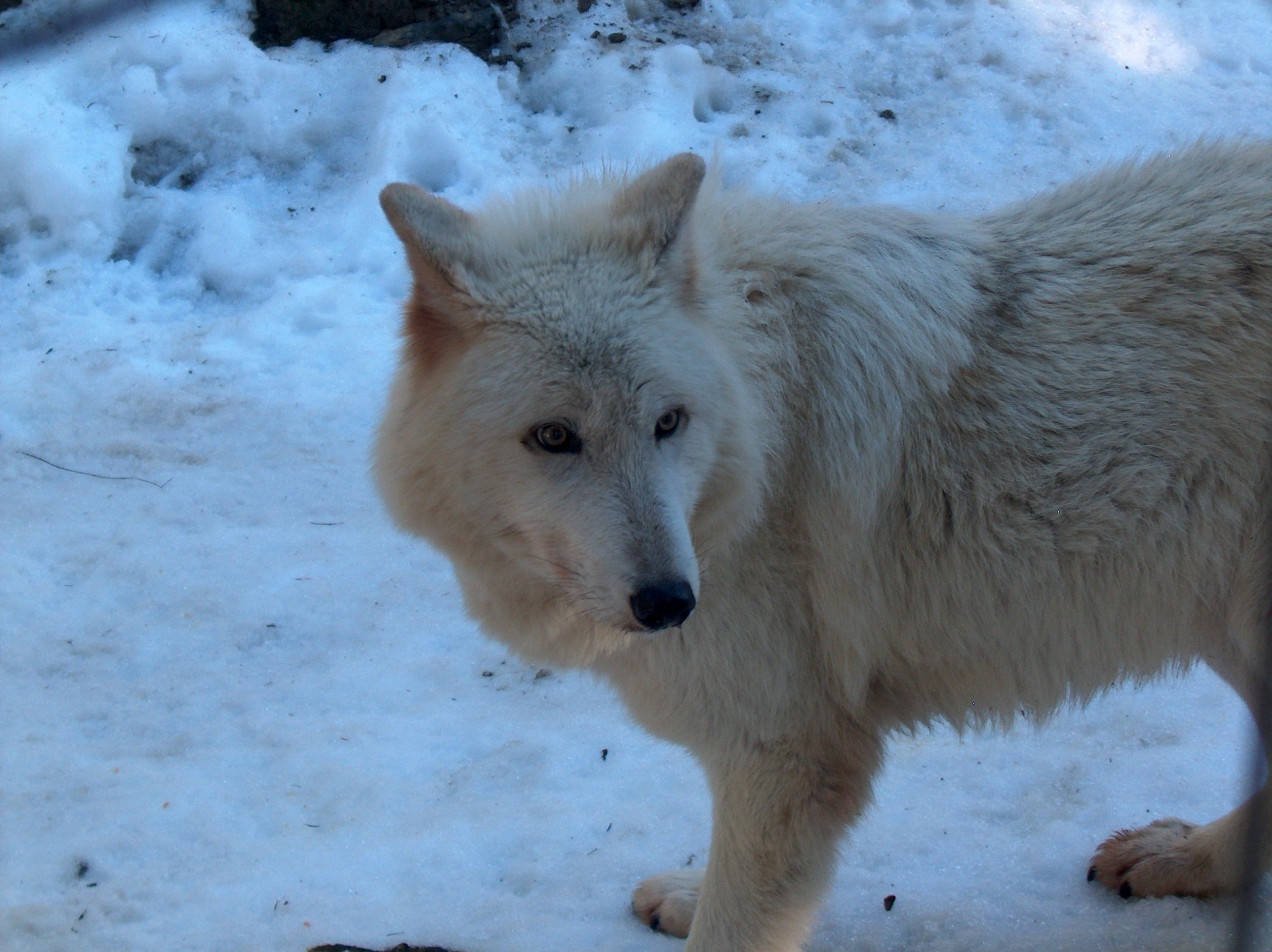 A Captive Vancouver Island Wolf (Canis lupus crassodon)